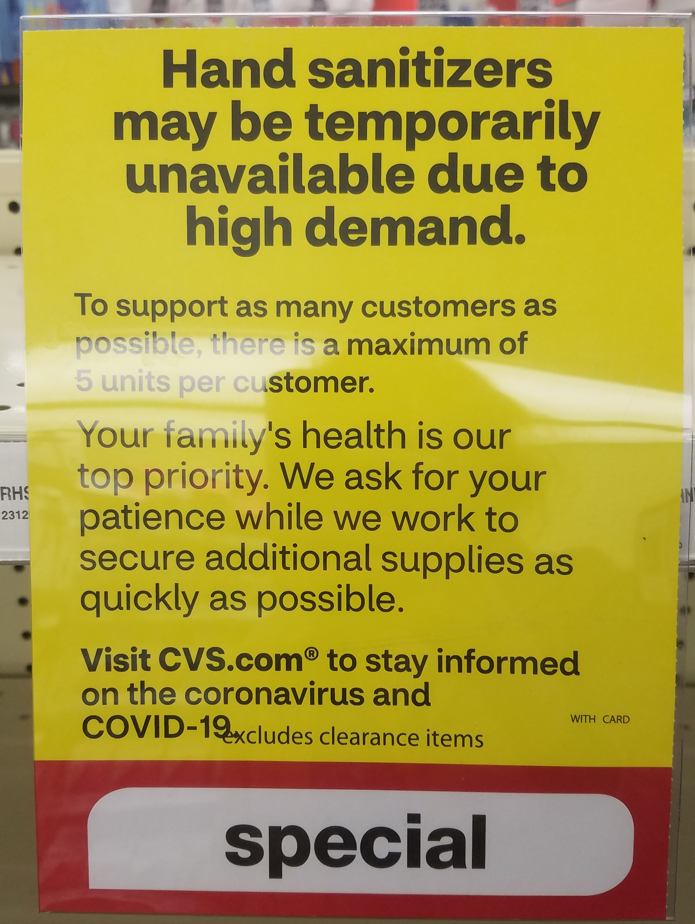 A notice at a CVS Pharmacy about hand sanitizer shortages, because of during 2020 coronavirus pandemic in North Carolina, as well as a limit on purchases.